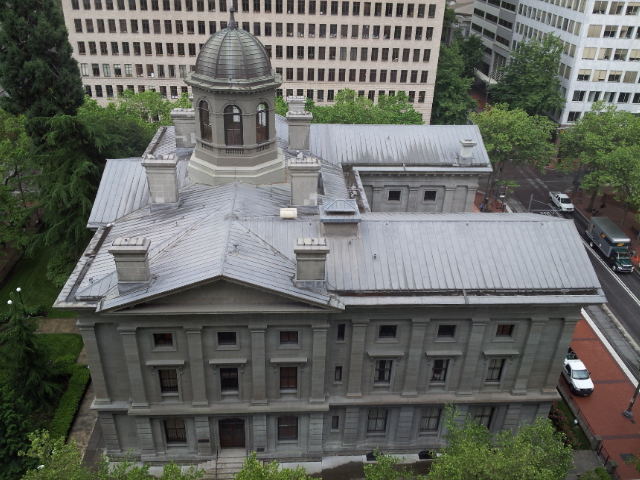 Pioneer Courthouse, Portland, Oregon, 2013